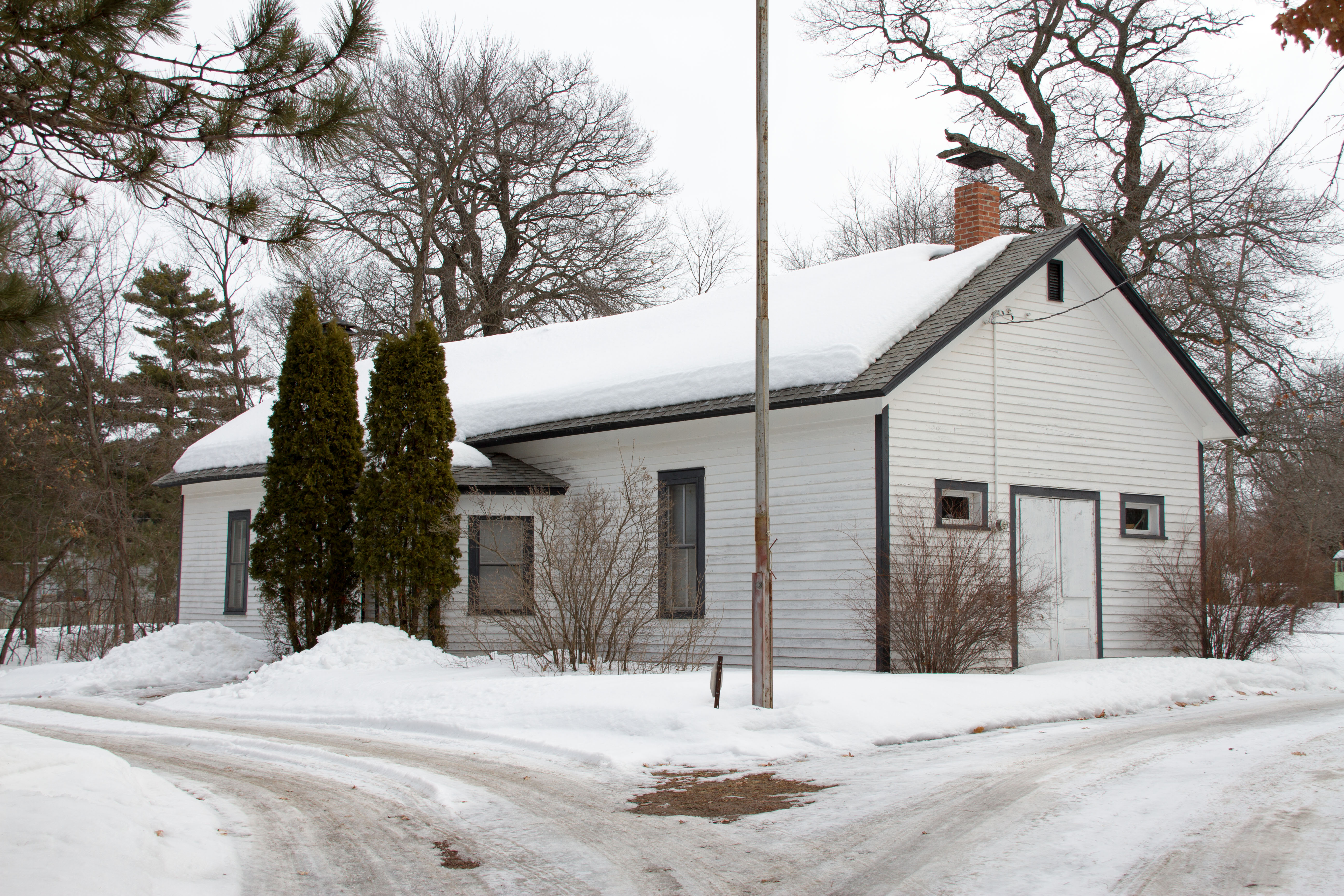 Crescent Grange Hall No. 512, Linwood Township, Anoka County, Minnesota, USA.